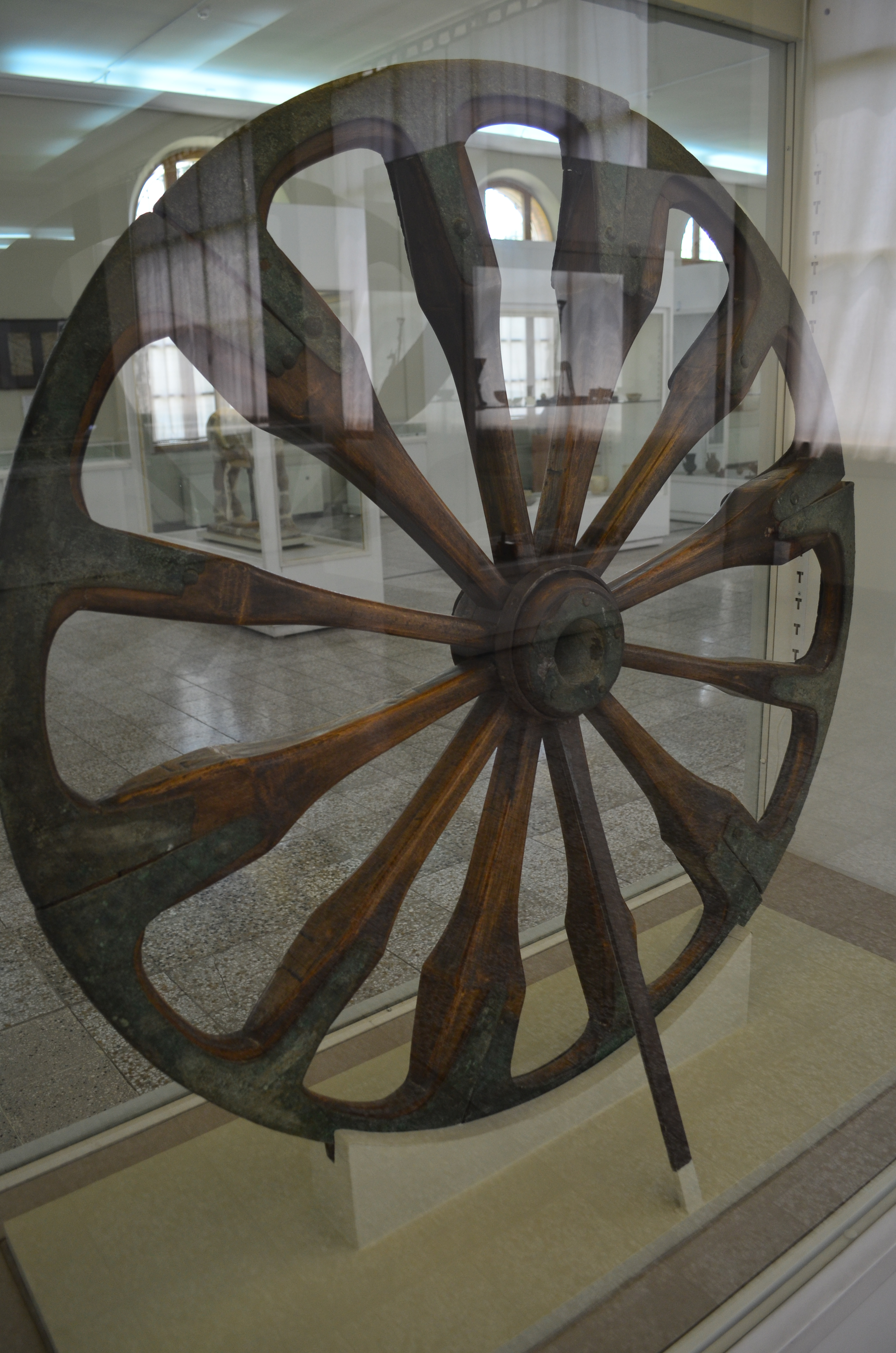 National Museum of Iran National Museum of Iran Native name